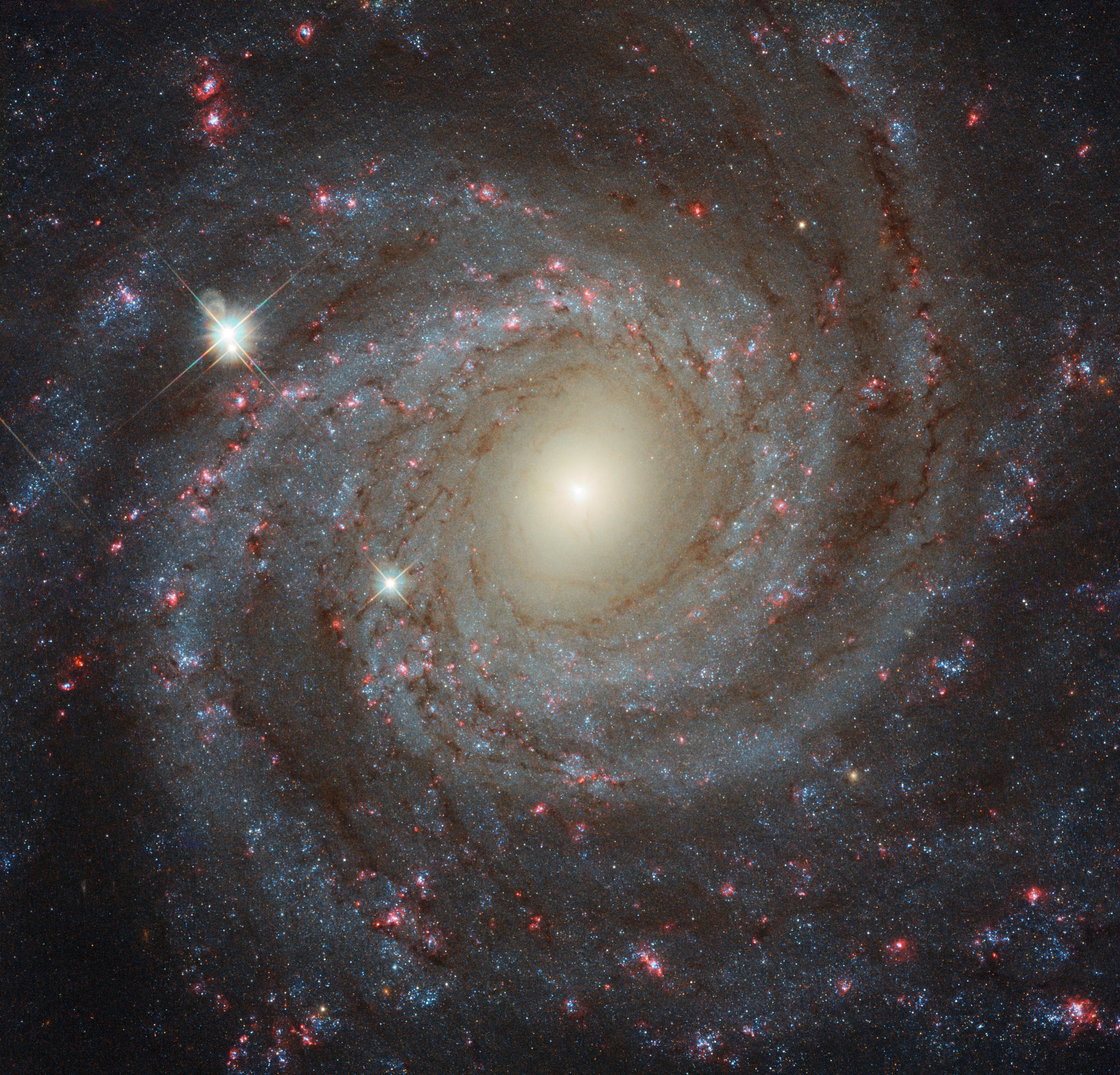 This image of the spiral galaxy NGC 3344, located about 20 million light-years from Earth, is a composite of images taken through seven different filters. They cover wavelengths from the ultraviolet to the optical and the near-infrared. Together they create a detailed picture of the galaxy and allow astronomers to study many different aspects of it.